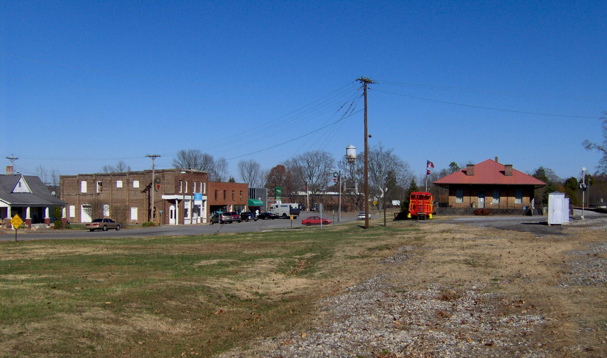 Niota, Tennessee, located in the Southeastern United States. The town's offices are located in the depot on the right, which is the oldest standing railroad depot in the state of Tennessee (built 1854).